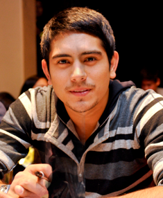 Gerald Anderson as as photographed by Ronn Tan, April 2010.